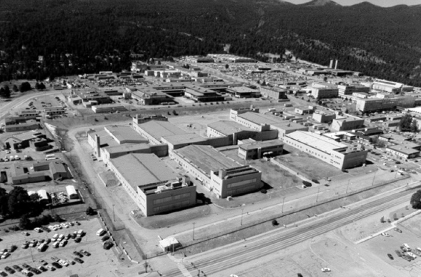 From Public meeting slides, also on LANL website. The CMR plutonium processing facility and what is now called "TA-3"